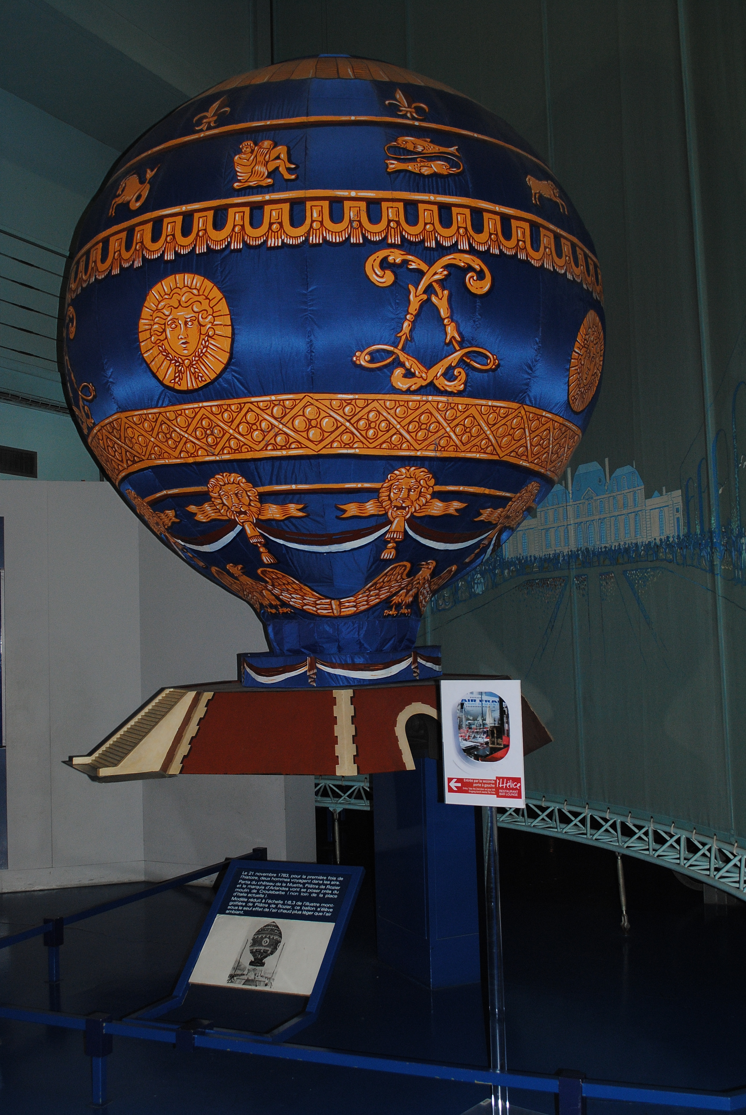 Model of the Montgolfier brothers balloon in the Musée de l'air et de l'espace (Le Bourget, France). 1/6,3 scale. Working model.